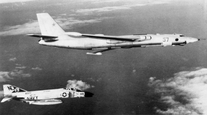 A U.S. Navy McDonnell F-4B-6-MC Phantom II (BuNo 148377) from Fighter Squadron VF-21 Freelancers intercepting a Soviet Myasischev 3M bomber (NATO reporting name "Bison-B"). VF-21 was assigned to Attack Carrier Air Wing 2 (CVW-2) aboard the aircraft carrier USS Coral Sea (CVA-43) for a deployment to the Western Pacific and the Vietnam War from 29 July 1966 to 23 February 1967.